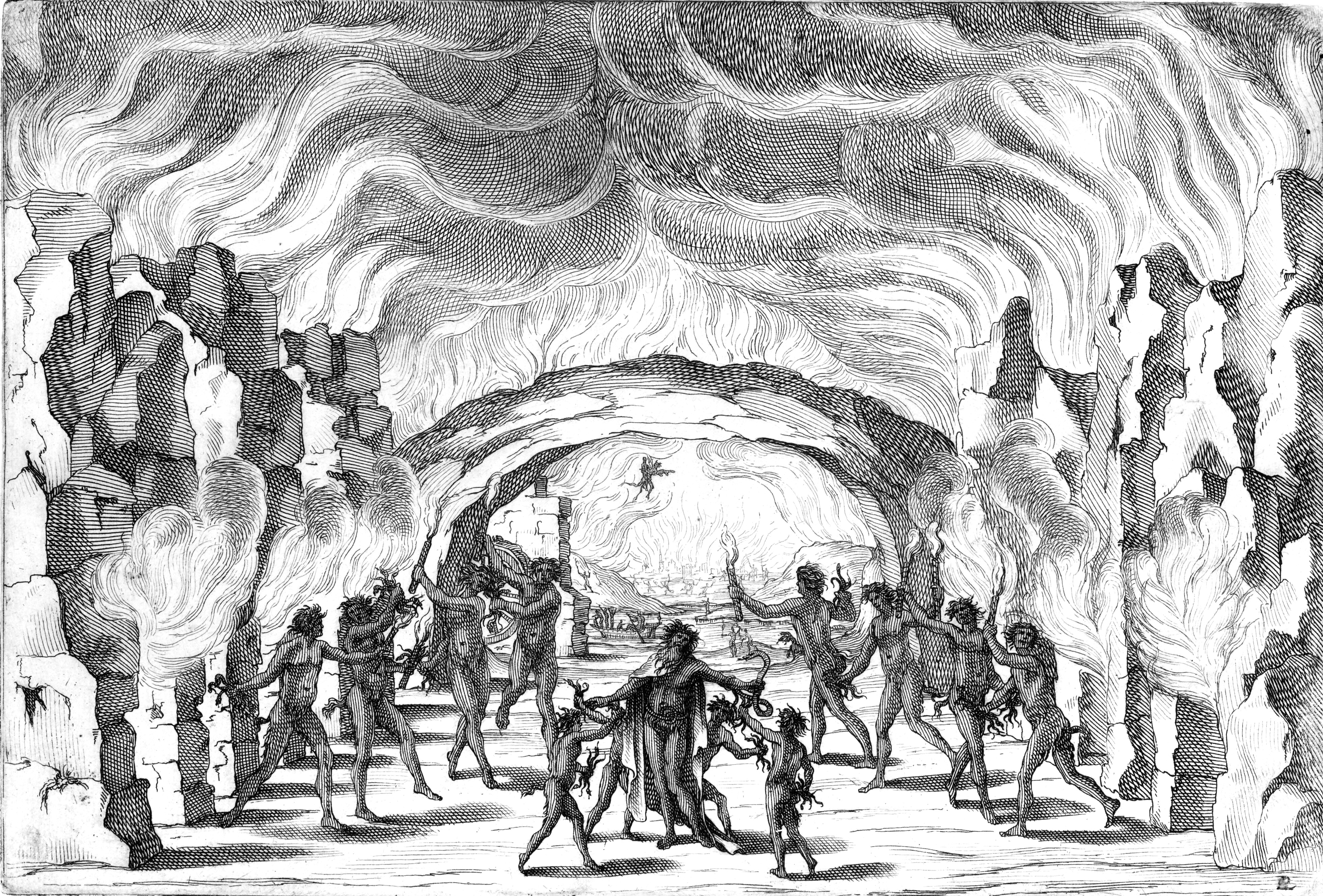 Stefano Landi - Il Sant'Alessio - Rome 1634 - Plate 2 - act 1 scene 4 without proscenium